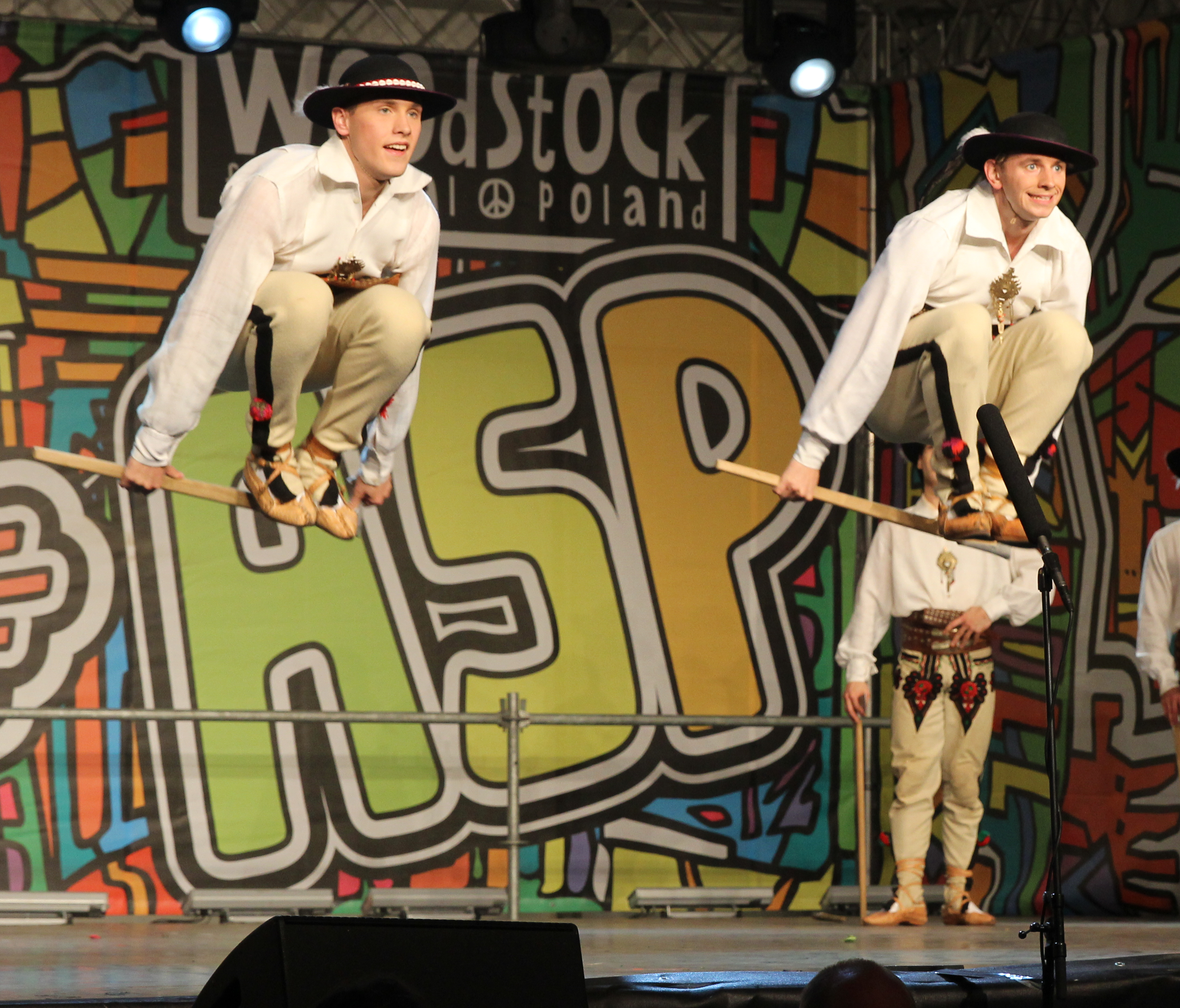 Mazowsze at Przystanek Woodstock in 2013